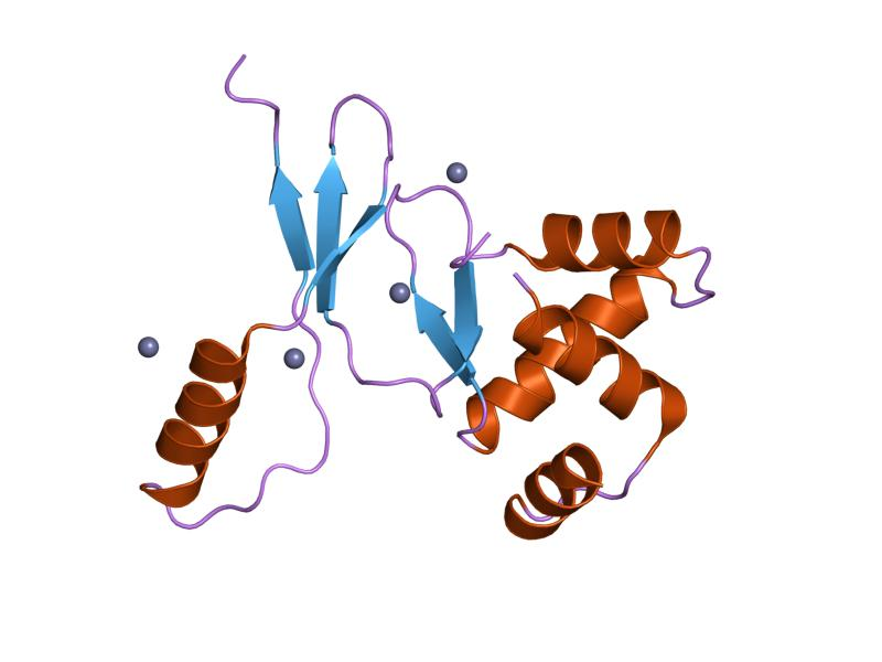 Cartoon representation of the molecular structure of protein registered with 1mzb code.